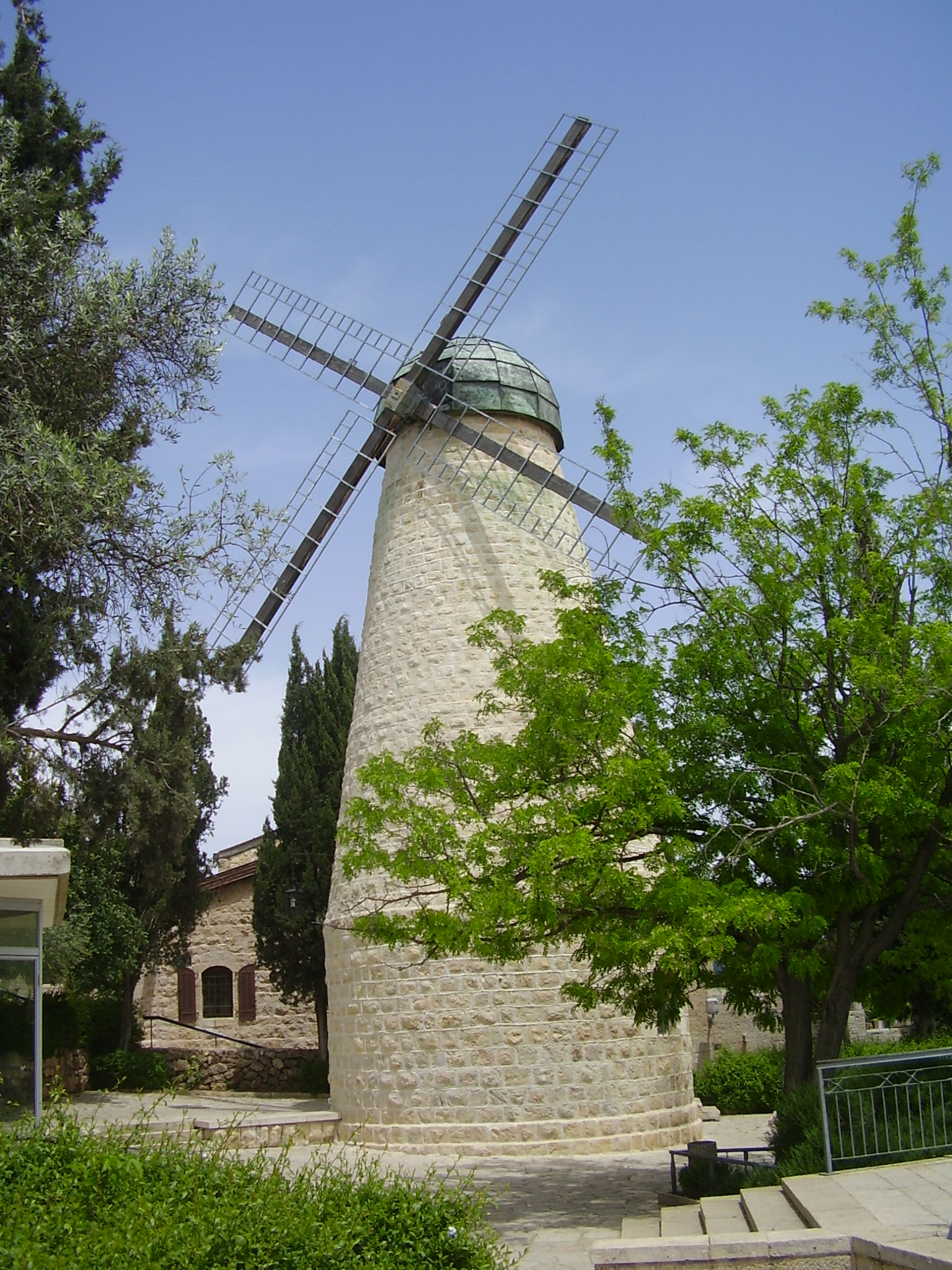 Yemin Moshe Windmill